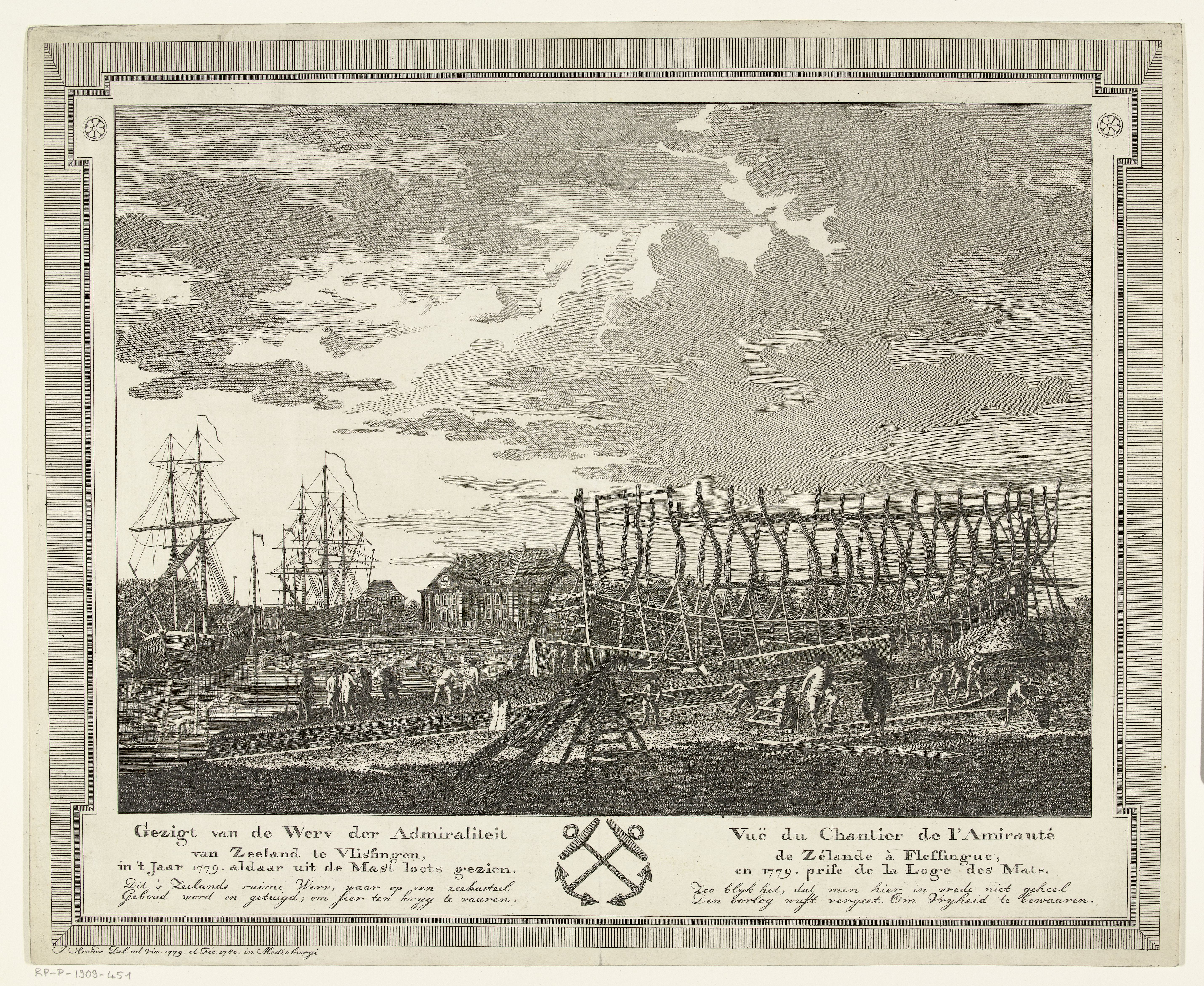 View of the Admirality yard Vlissingen by Jan Arends 1780. In the center the Zeemagazijn (an arsenal). Left in the background, the dock behind the lock gate, on the right slipways, with the warship Goes under construction.